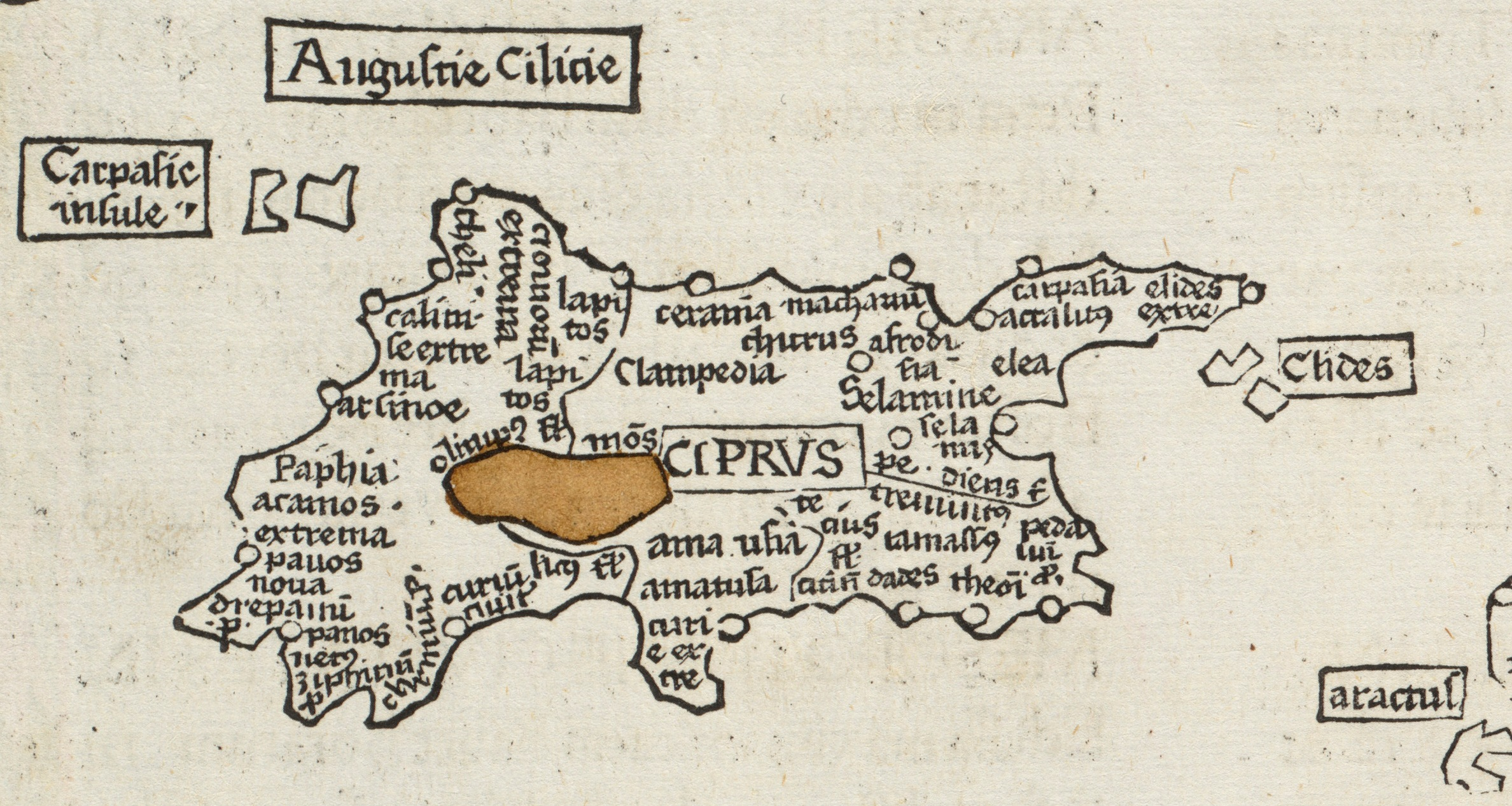 Published in Claudius Ptolemy, Cosmographia. Translated by Jacobus Angelis. Edited by Nicolaus Germanus. Ulm: Lienhart Holle, 1482, folio 115-116. Include: Asia, Cyprus, Iran, Judea, Mesopotamia, Middle East, Syria.